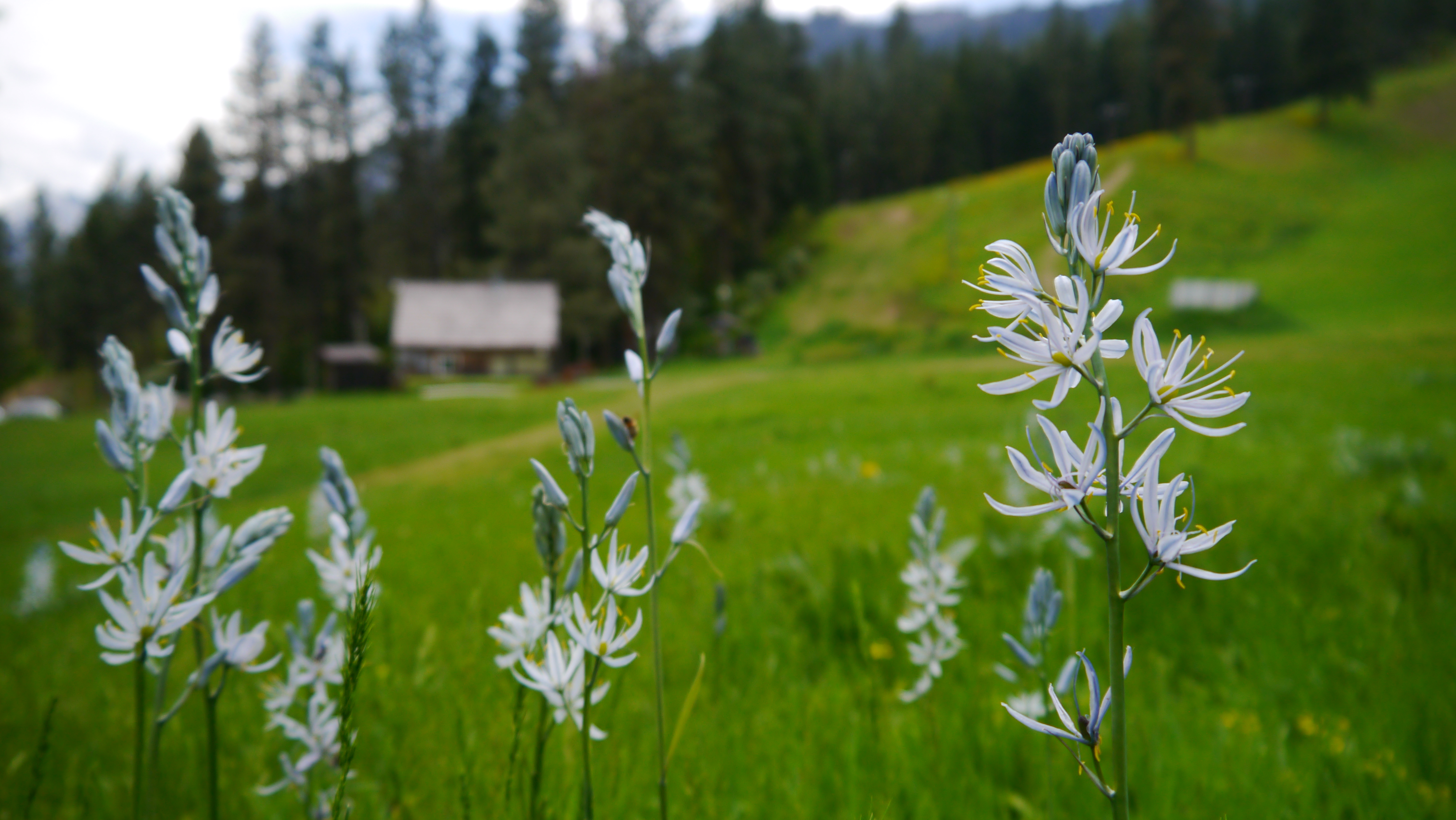 Camassia quamash ssp. quamash (common camas) at Leavenworth Ski Hill, Washington in spring